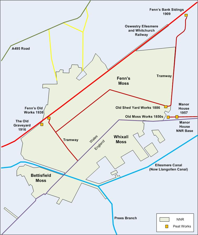 Plan of Fenn's and Whixall Mosses, England, showing extent of National Nature Reserve, with overlays showing historic peat works, tramways, railways and the Llangollen Canal